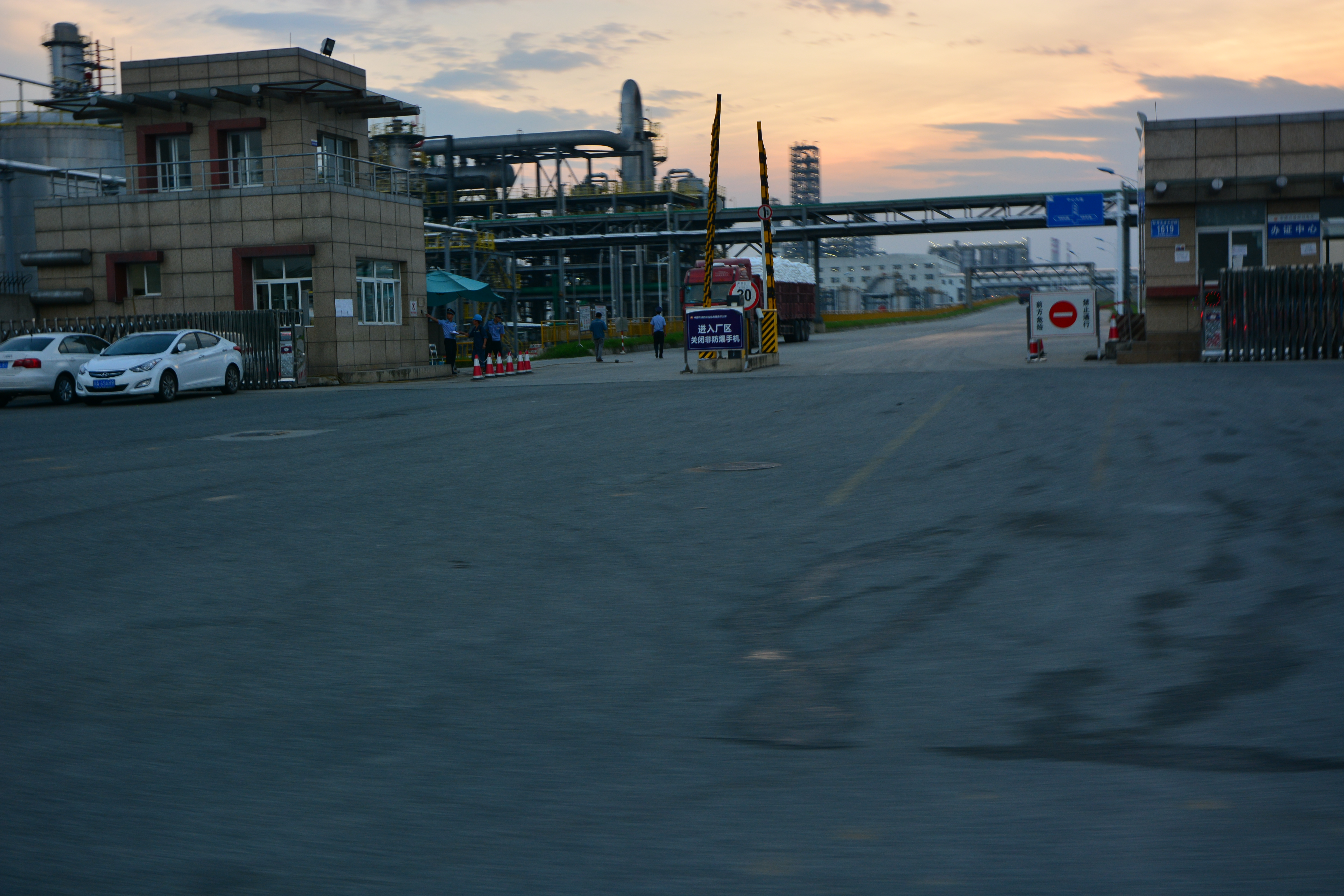 Gate of the Chamical Plant in Pengzhou,Sichuan. Builing of this plant was combat by local citizens,but government build it enforcely,and now it is producing.